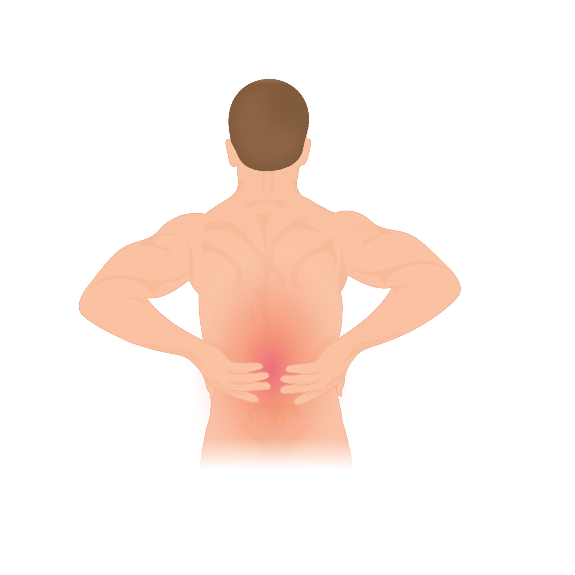 An illustration showing typical lower back pain. A common musculoskeletal ailment.